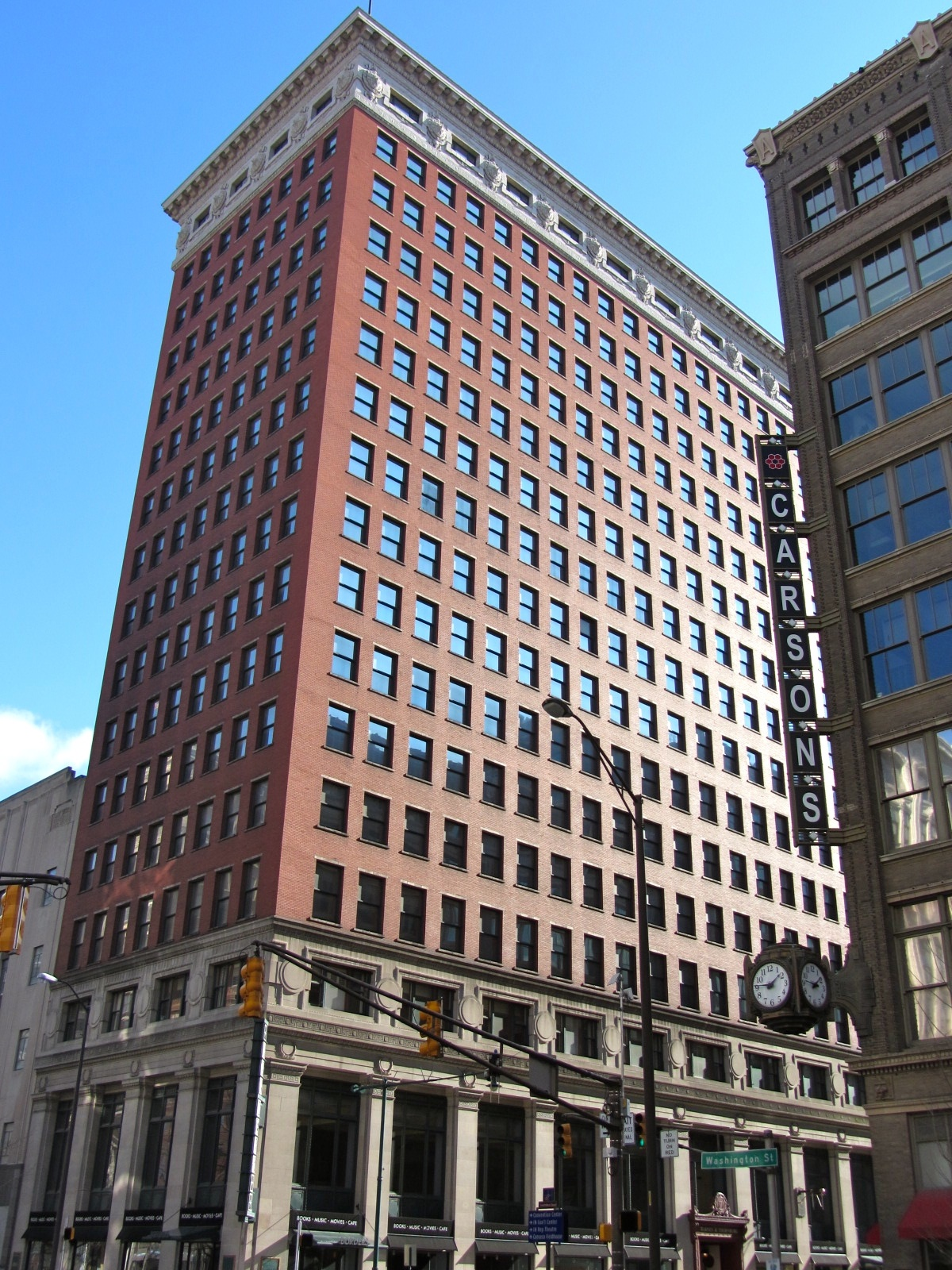 The photo was shot from the corner of Washington and Meridian streets in downtown Indianapolis, looking southeast.